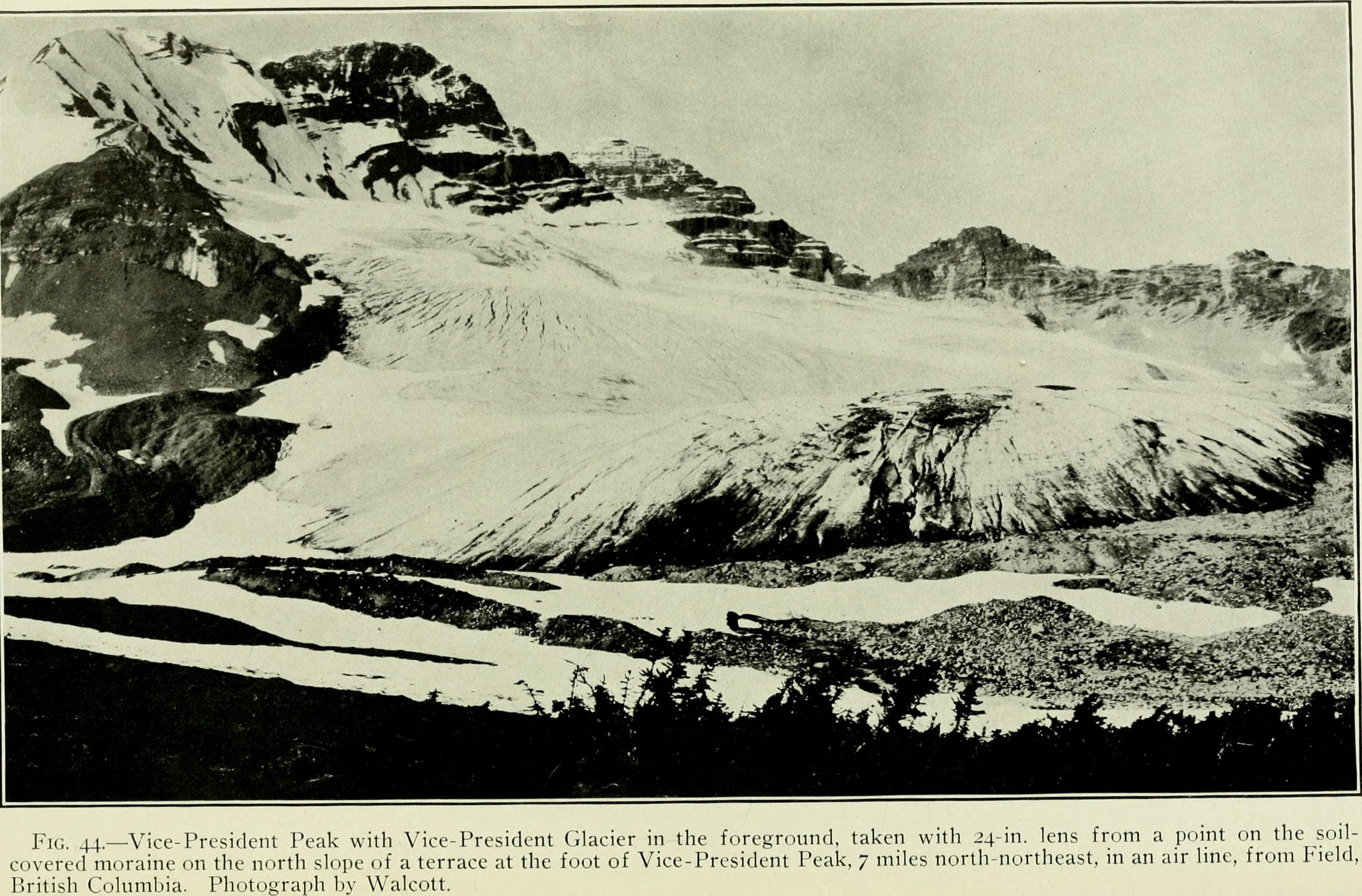 Title: Expeditions organized or participated in by the Smithsonian Institution.. Year: 1912 (1910s) Authors: Smithsonian Institution Subjects: Scientific expeditions Publisher: Washington, D.C. : Smithsonian Institution Text Appearing Before Image: NTOLOGY IN THECANADIAN ROCKIES During the field season in 1909, Dr. Charles D. Walcott, Secretaryof the Smithsonian Institution, continued his investigations in thegeology of the Cambrian and pre-Cambrian rocks of the Bow River\alley. Alberta, Canada, and on the west side of the ContinentalDivide north of the Canadian Pacific Railway in British Columbia. The first camp was made on the shores of Lake Louise, southwestof Laggan. From this point work was carried forward on the highmountains east, northeast, and southwest of the lake, and side tripswere made to the \alley of the Ten Peaks and across the Bow Valleyin the vicinity of Ptarmigan Lake. Many fine photographs w^eresecured, both of the beautiful scenery and of the geological sectionswhich are wonderfully well shown above timber line on the higherridges and peaks. The measurements of the Cambrian section were carried down toa massive conglomerate which forms the base of the Cambrian 40 SMITHSONIAN MISCELLANEOUS COLLECTIONS VOL. 59 Text Appearing After Image: NO. II SMITHSONIAN EXPEDITIONS, I9IO-I9II 41 system in this portion of the Rocky Mountains. This discoveryled to the study of the pre-Camhrian rocks of the Bow River Valley.These were found to form a series of sandstones and shales some4000 feet in thickness, that appear to have been deposited in fresh-water lakes prior to the incursion of the marine waters in which thegreat bed of conglomerate and the Cambrian rocks above weredeposited. Completing the reconnaissance survey of the Bow River area